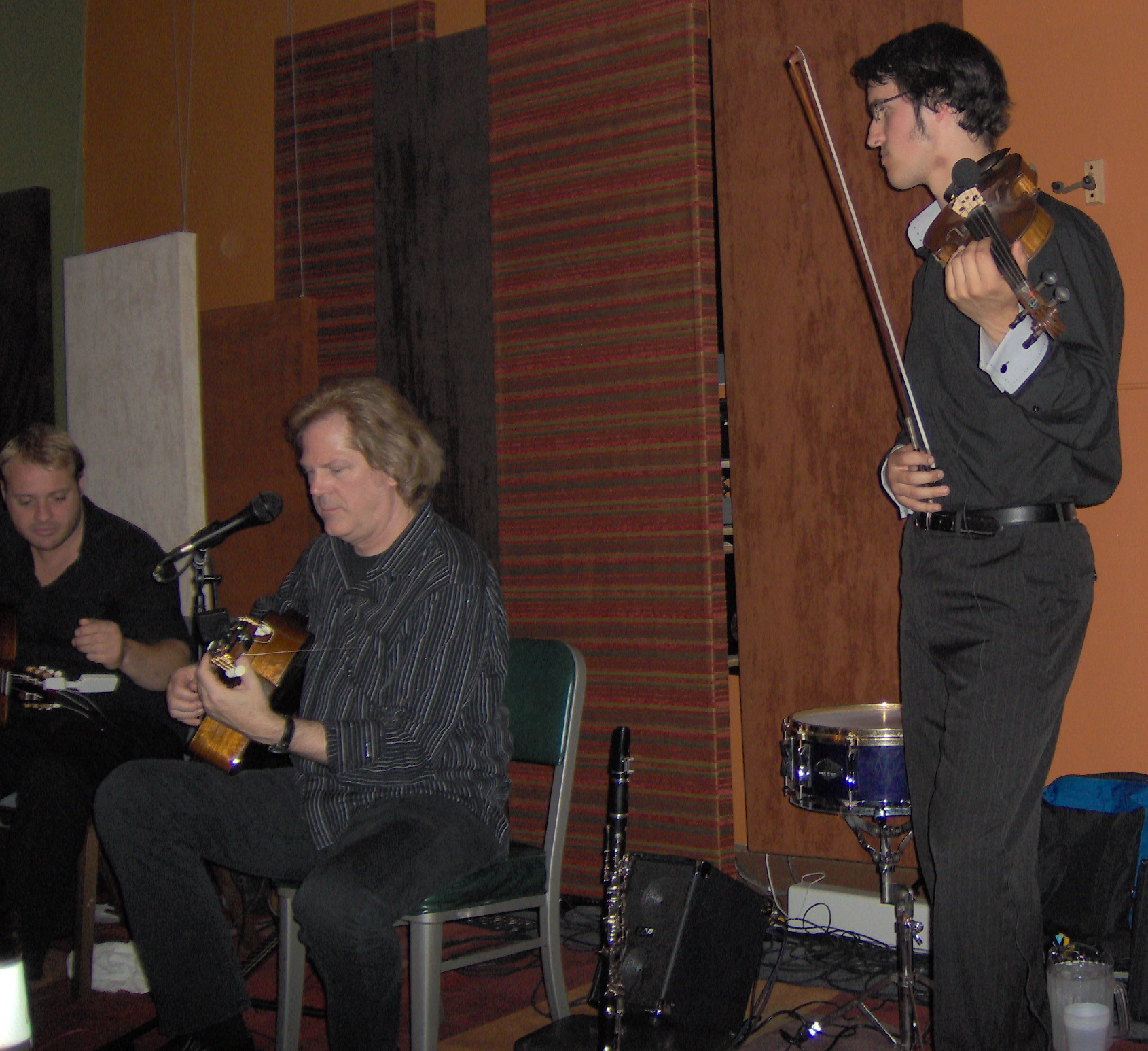 John Jorgenson Quintet at Kentucky Coffee Tree Cafe in Frankfort, Kentucky. Pictured left to right: Kevin Nolan, rhythm guitarist; John Jorgenson, lead instrumentalist; Jason Anick, jazz violinist.